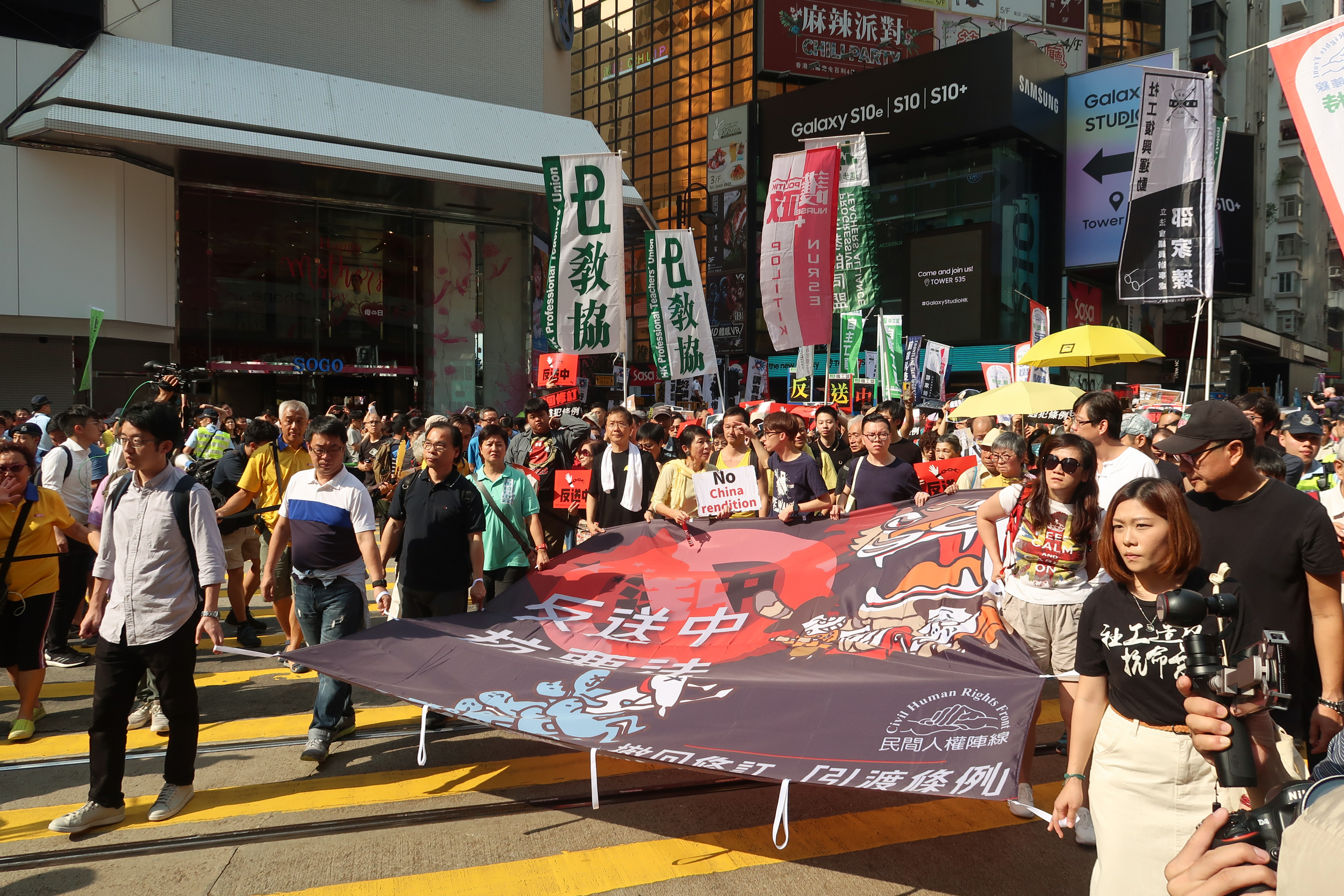 Protest against proposed extradition law start